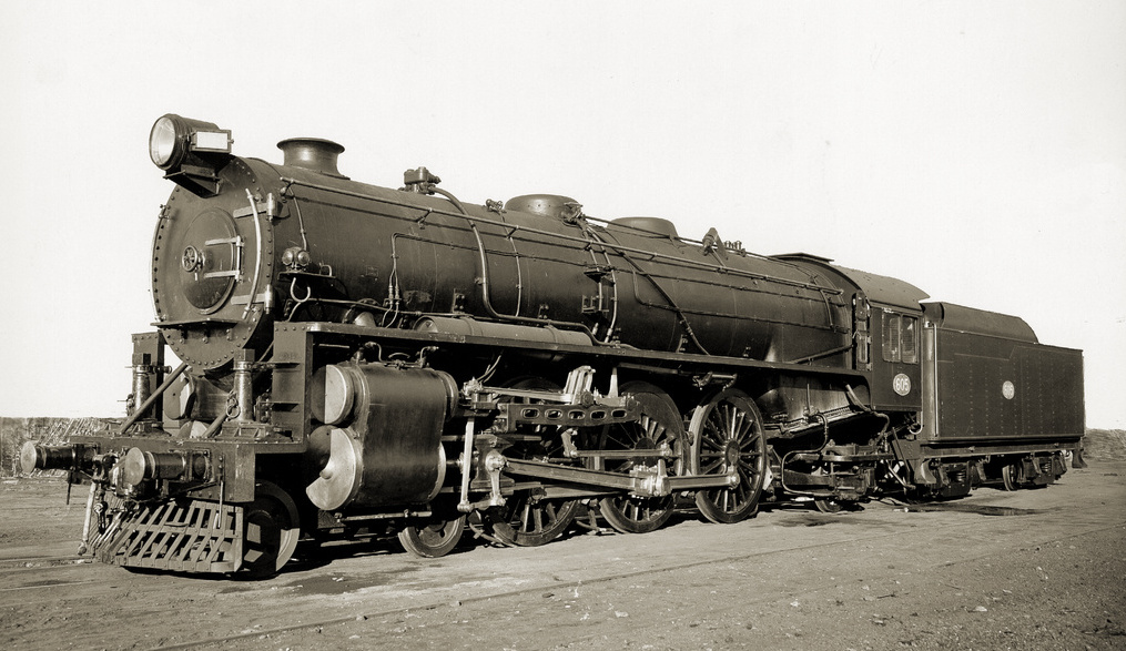 From the source: [General description] This new 600 class locomotive was probably one of a batch of ten which arrived in Adelaide in 1926 and went into service that year. These were part of larger order for thirty modern steam locomotives placed to Armstrong Whitworth in Great Britain in 1924. South Australian Railways (S.A.R.) owned twenty Pacific type locomotives. [On back of photograph] 'Pacific type of locomotive'